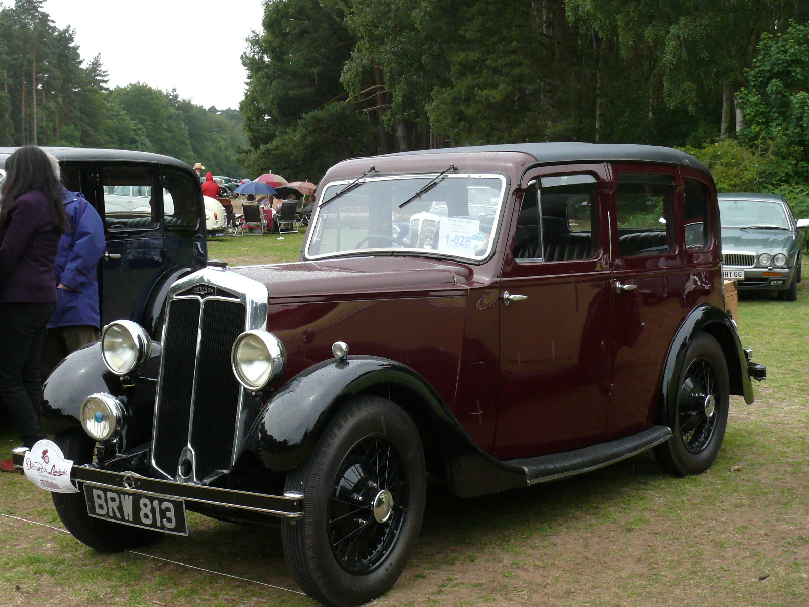 Lanchester LA10 6-light saloon [BRW 813] Daimler & Lanchester Owners Club, International Rally, Queen's Birthday weekend, Sandringham, Norfolk Sunday 12 June 2011 (DVLA) 1303cc, reg 3 April 1936